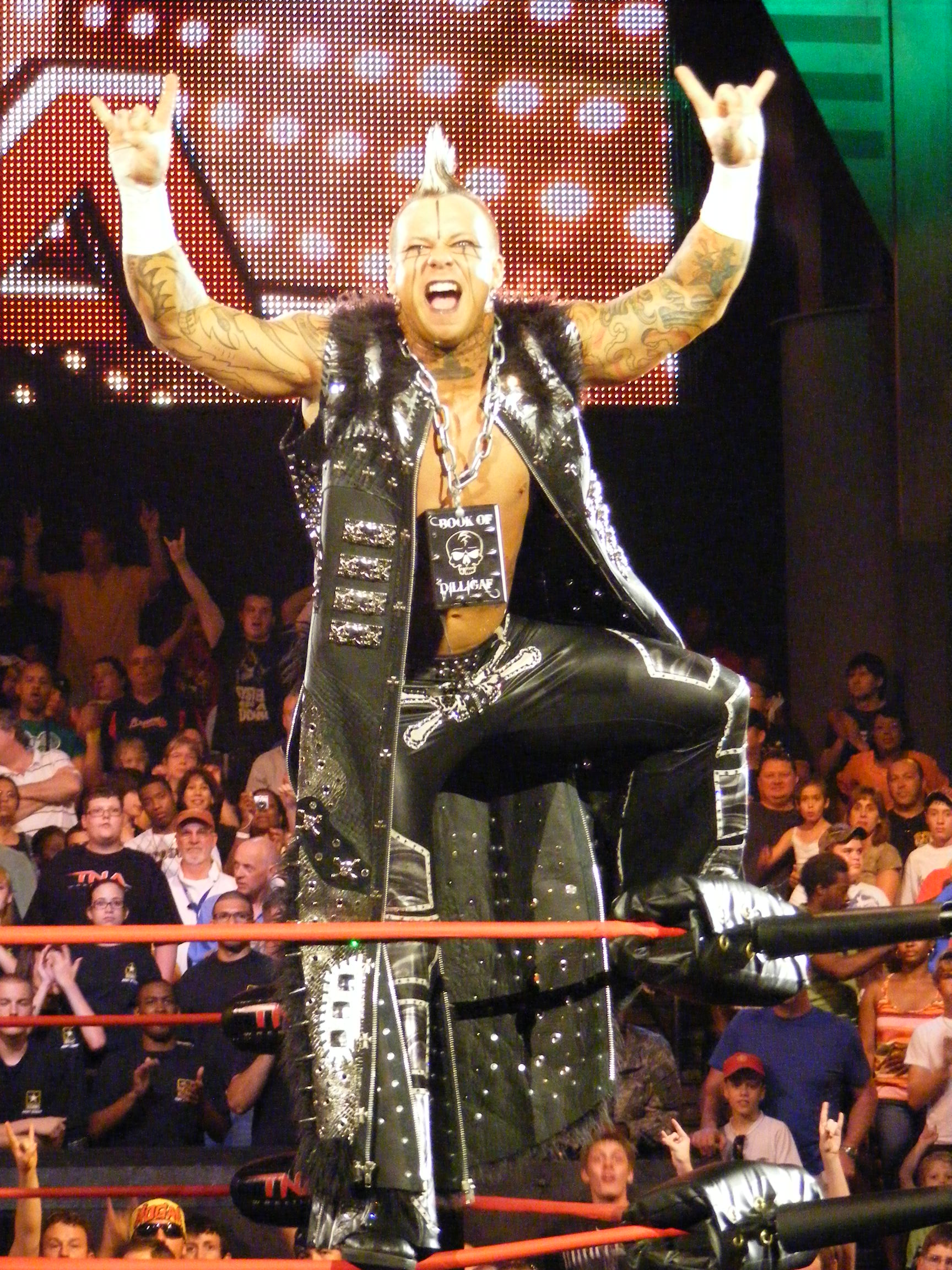 Shannon Moore poses for the cameras before a match against Frankie Kazarian at a TNA Impact taping.